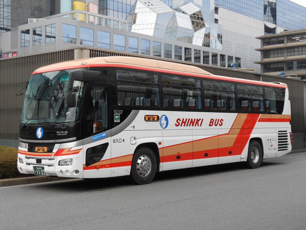 Shinki bus Hino S'ELEGA (LKG-RU1ESBA)highwaybus "Tsuyama-express Kyoto"(Tsuyama-Kyoto)